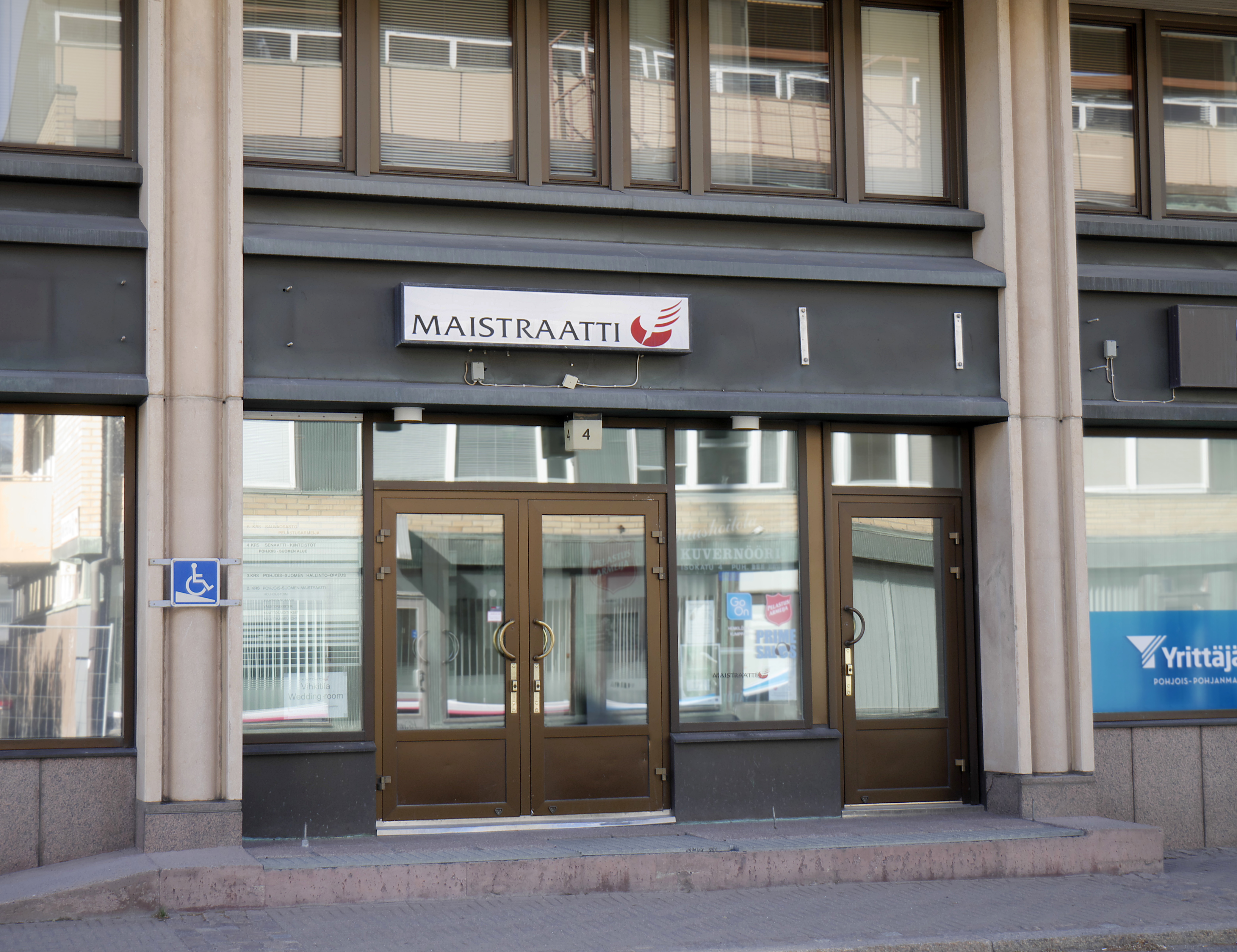 Local register office in Oulu, Finland.